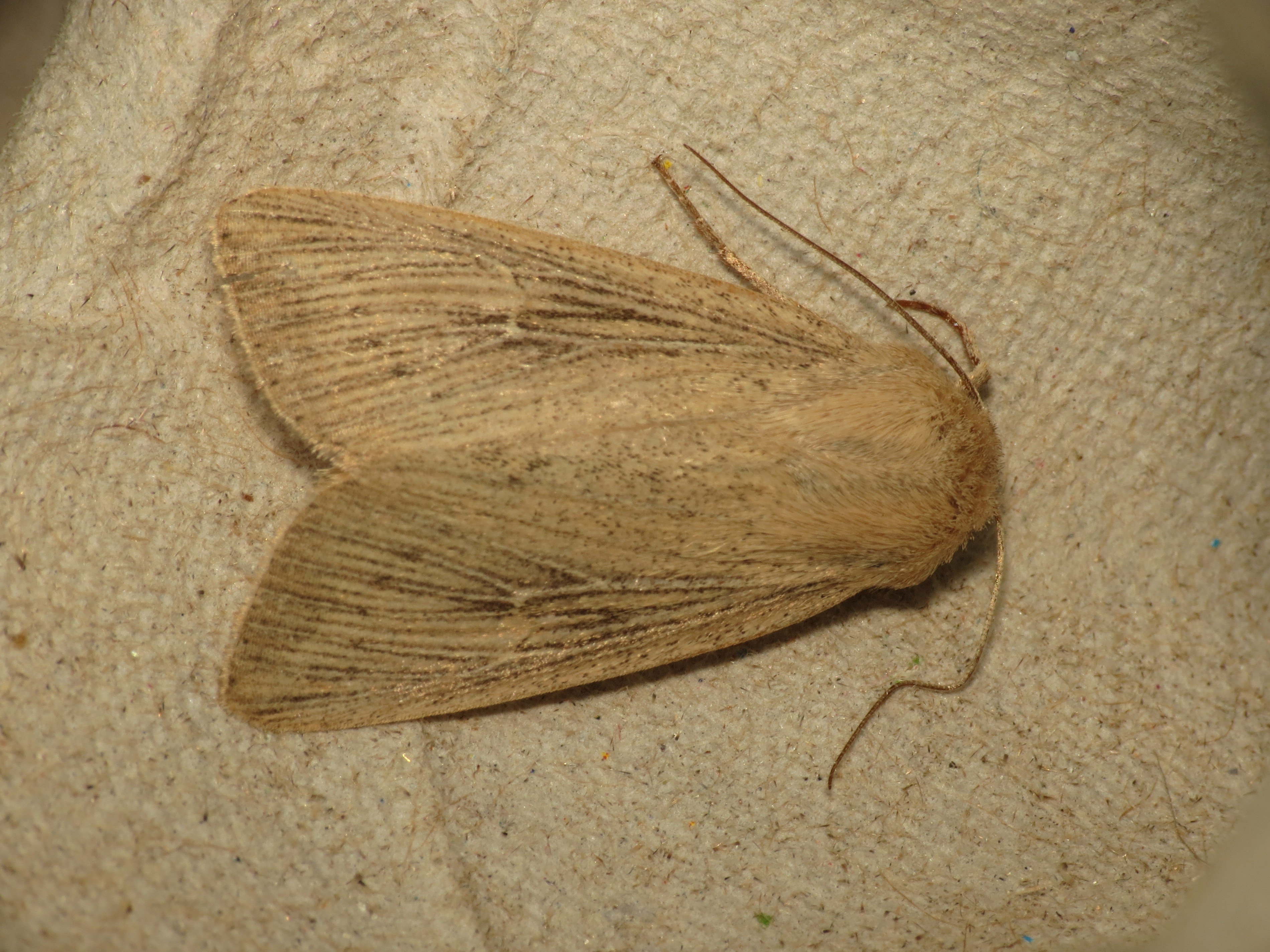 Leucania obsoleta (Hübner, 1803), Obscure Wainscot, to Robinson trap, Søborg, Denmark, 27/28 July 2013 Greyish hindwings